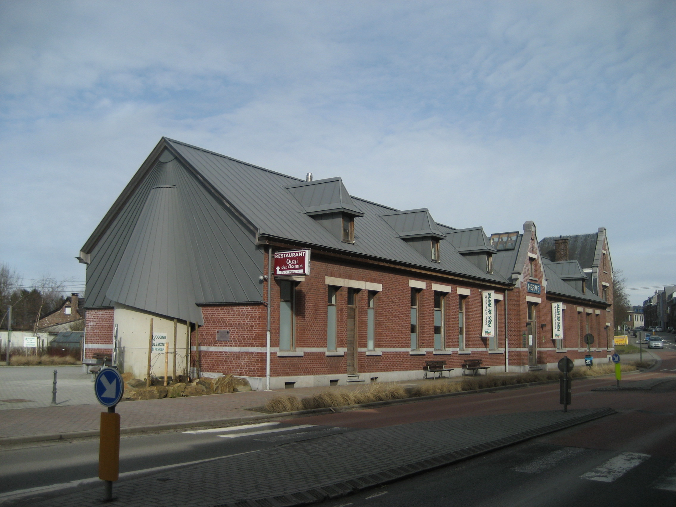 Herve railway station